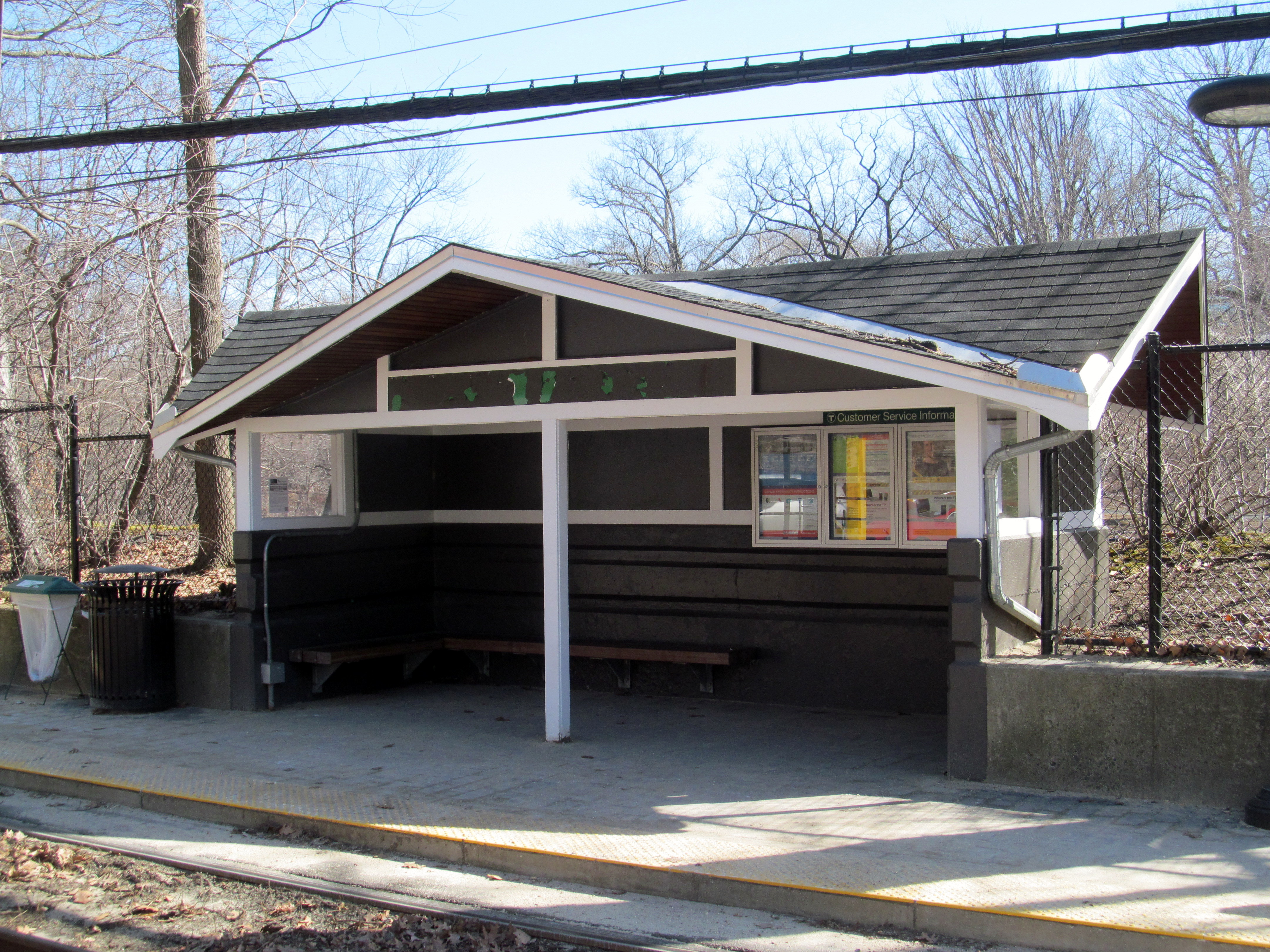 Inbound shelter at Longwood station in March 2016